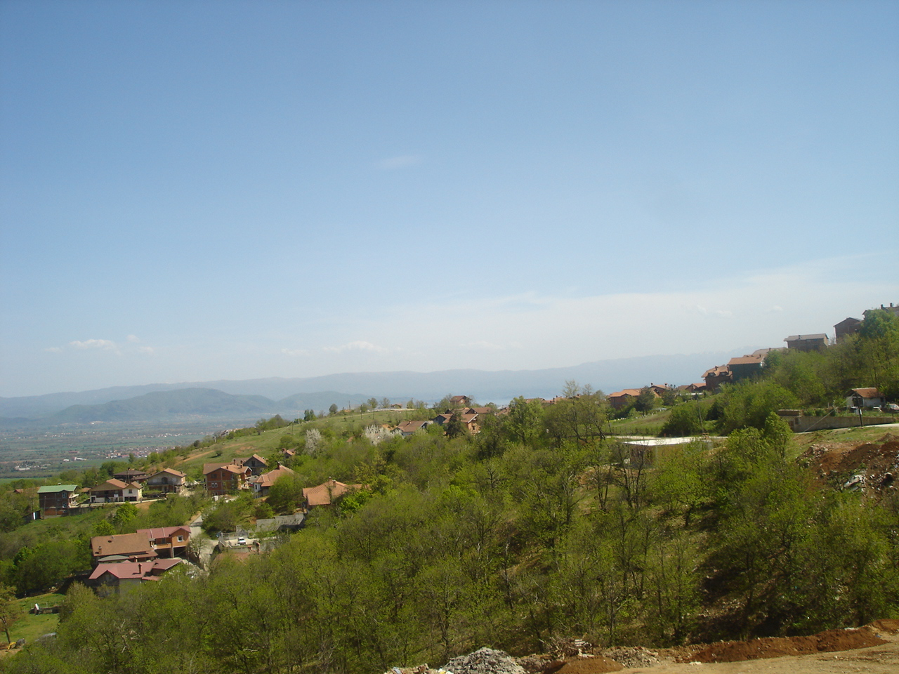 village of Podgorci, near Struga, Macedonia